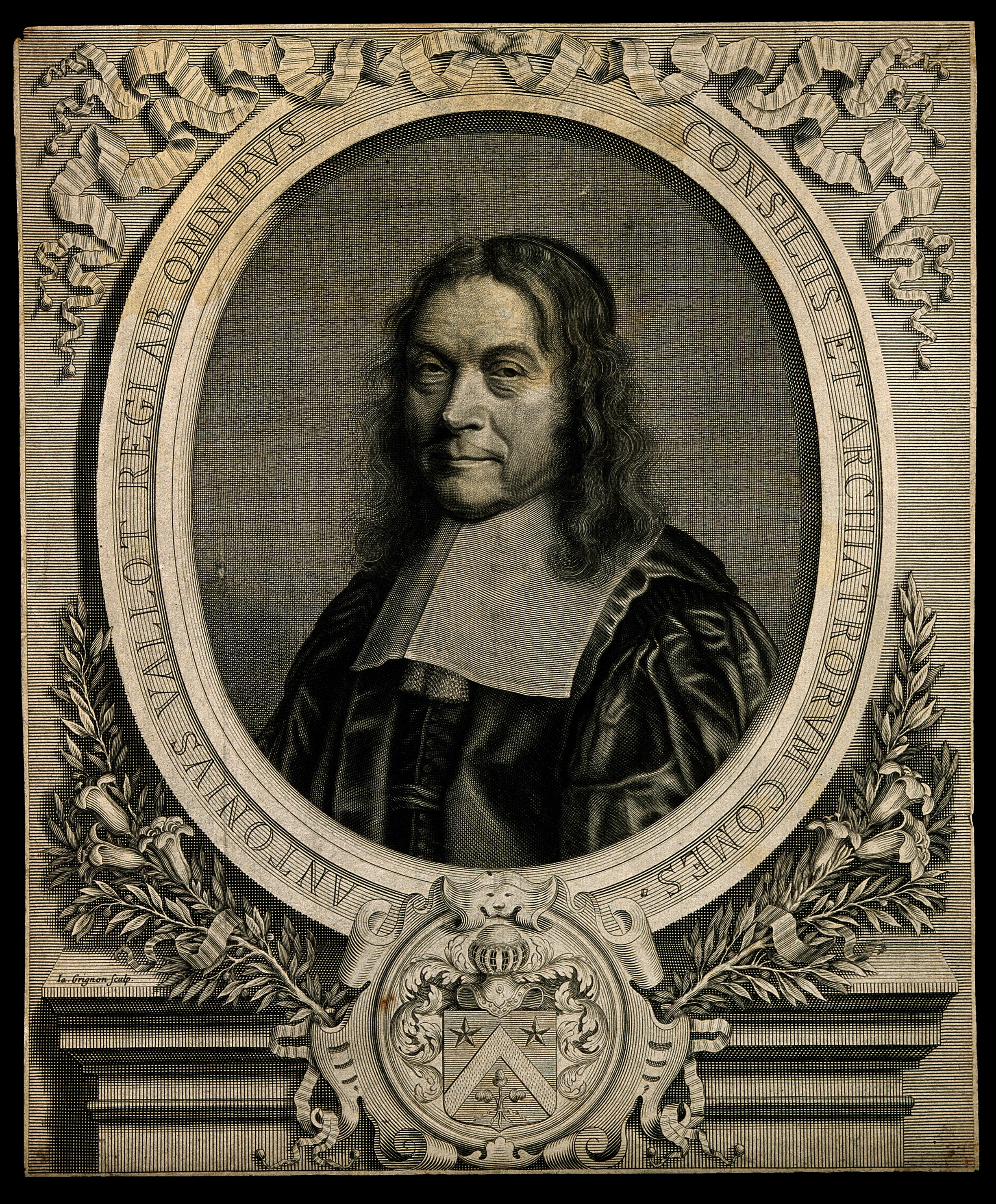 Antoine Vallot. Line engraving by J. Grignon. Iconographic Collections Keywords: portrait prints; Antoine Vallot; engravings